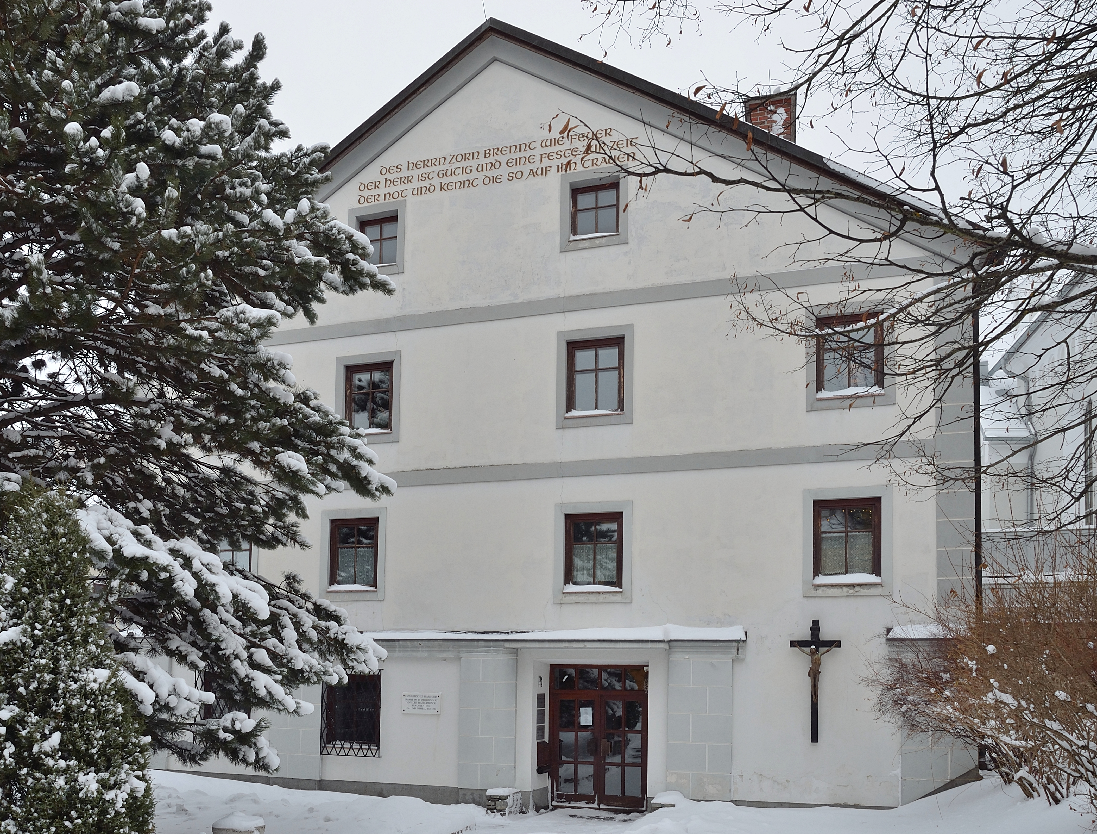 Lutheran rectory in Schladming, Styria.